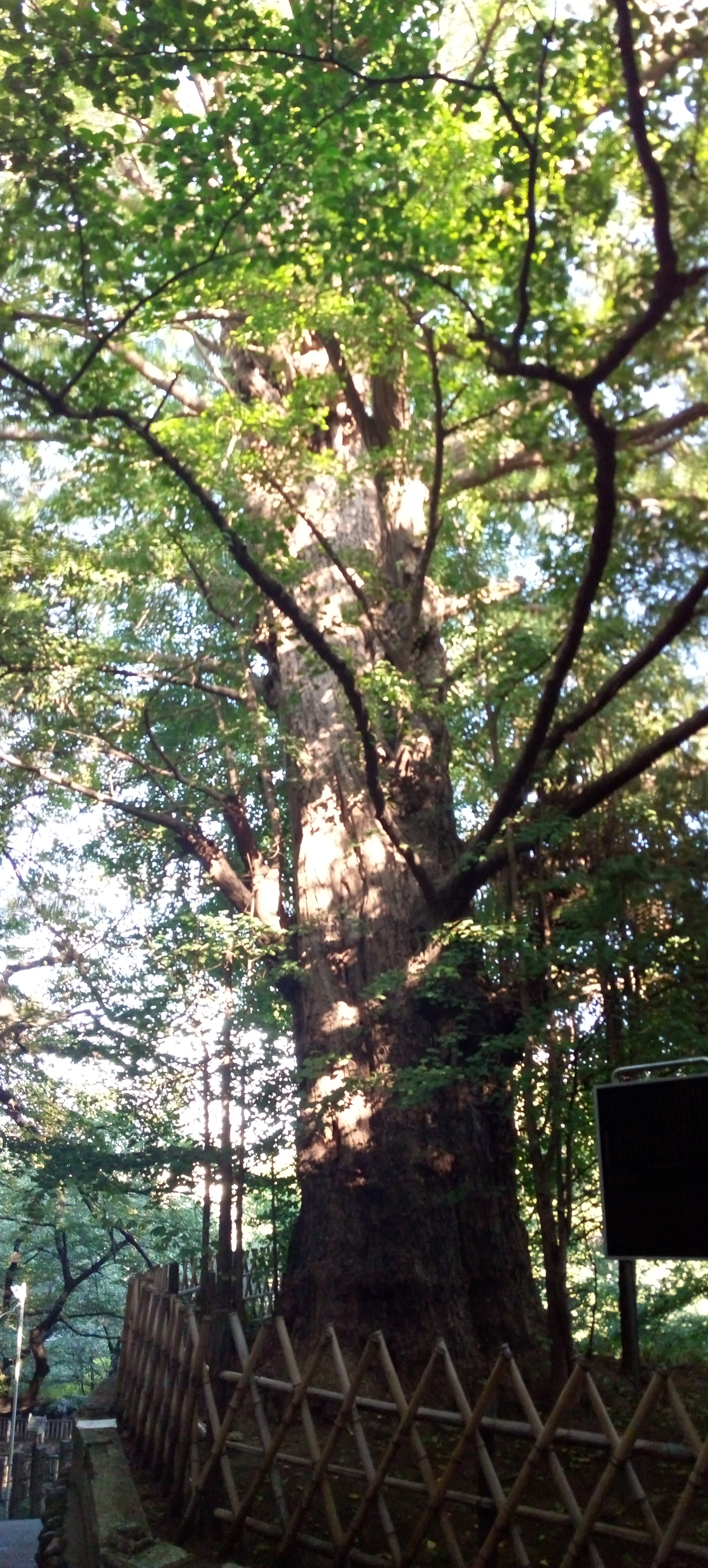 Giant ginkgo tree at Oji shrine, Tokyo.